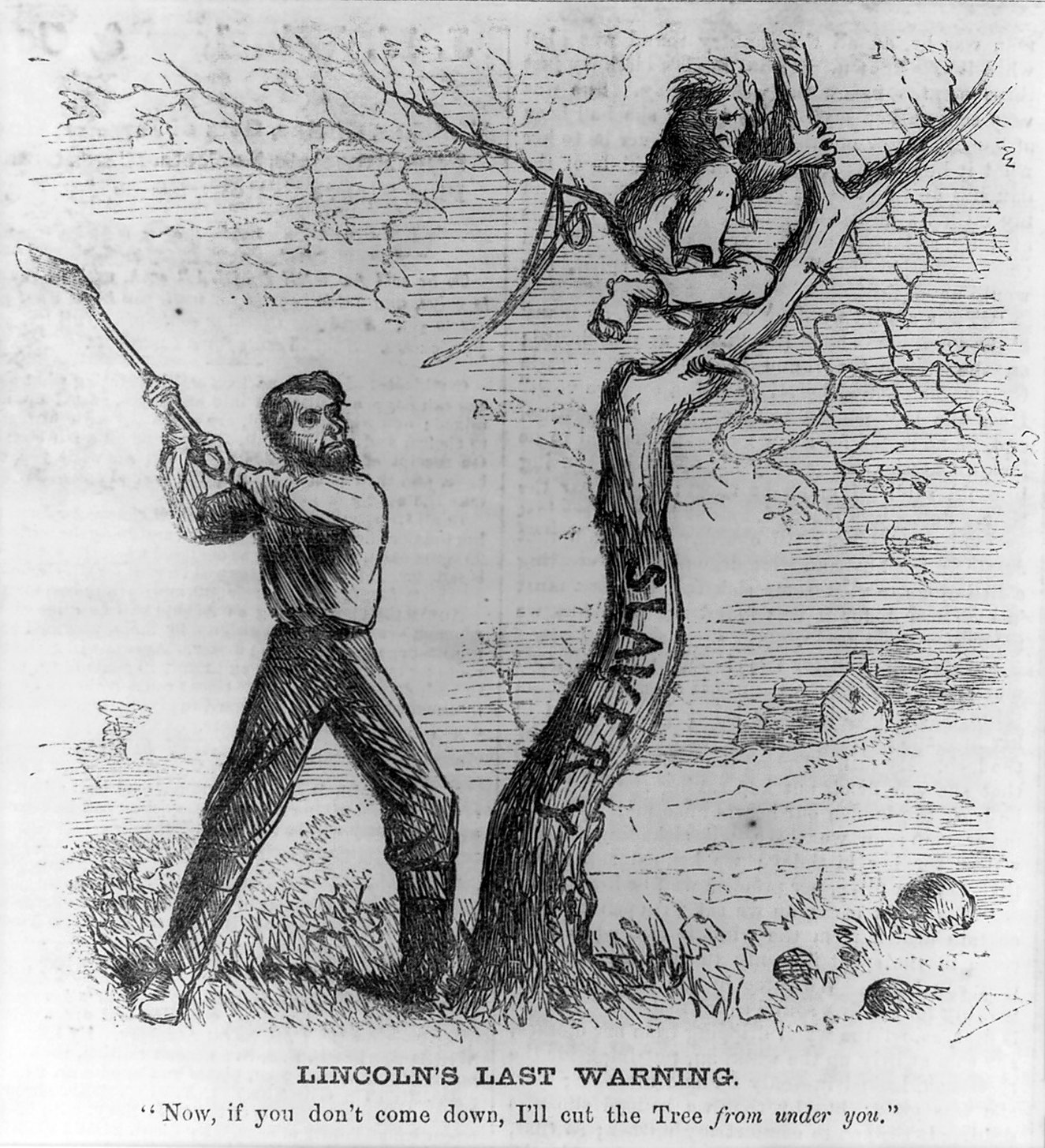 "Lincoln's Last warning: 'Now, if you don't come down, I'll cut the tree from under you.'" Cartoon on President Lincoln's provisional Emancipation Proclamation, threatening the Southern states with the abolition of slavery on January 1, 1863 in case they don't rejoin the Union by then; published in Harper's Weekly, October 11, 1862